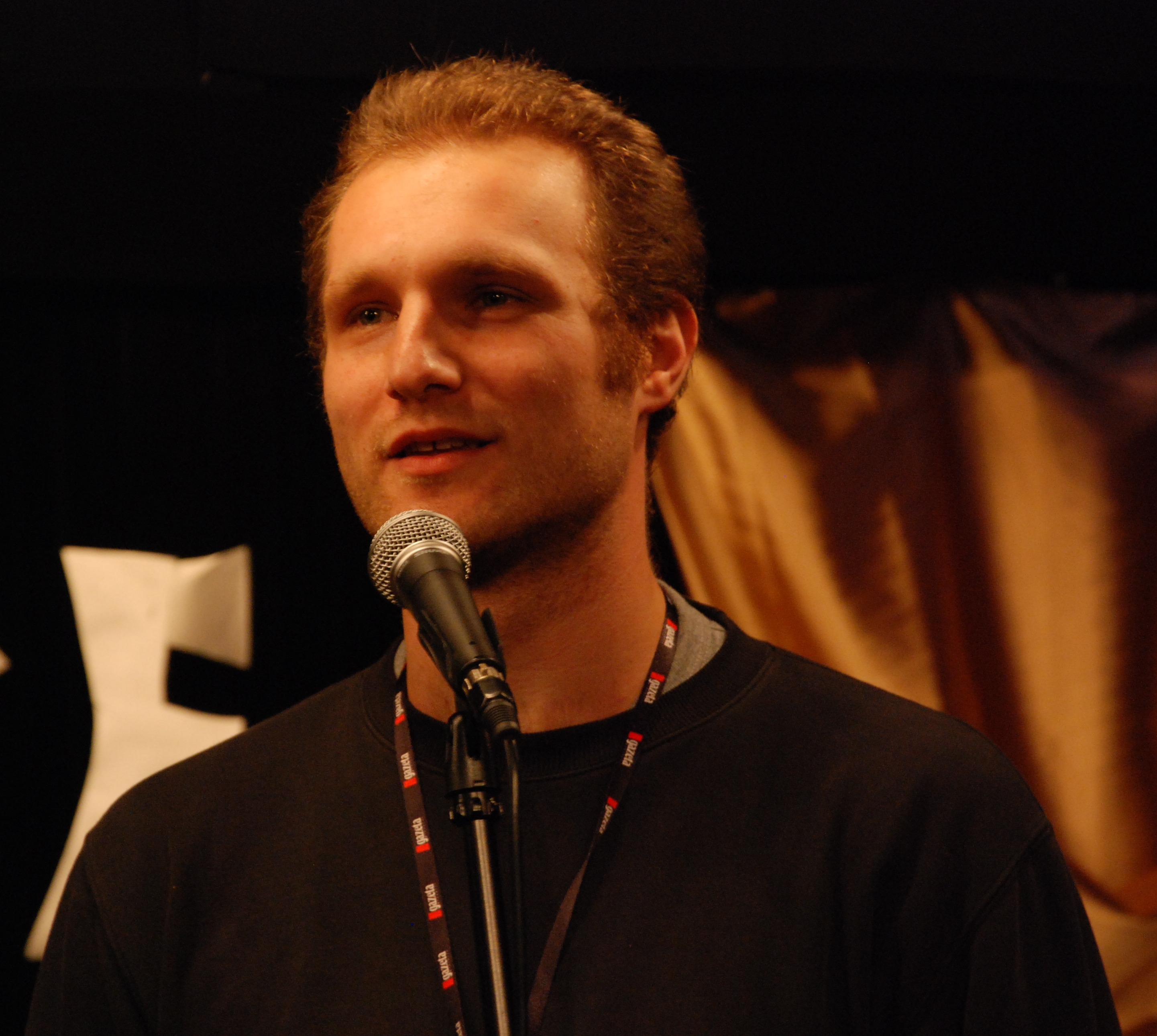 Wojciech Tremiszewski of Kabaret Limo during his performance in a student's club "Gęba" (English literary translation: "Mug") on the second day of the 2007 Festival of Cabaret in Zielona Góra.